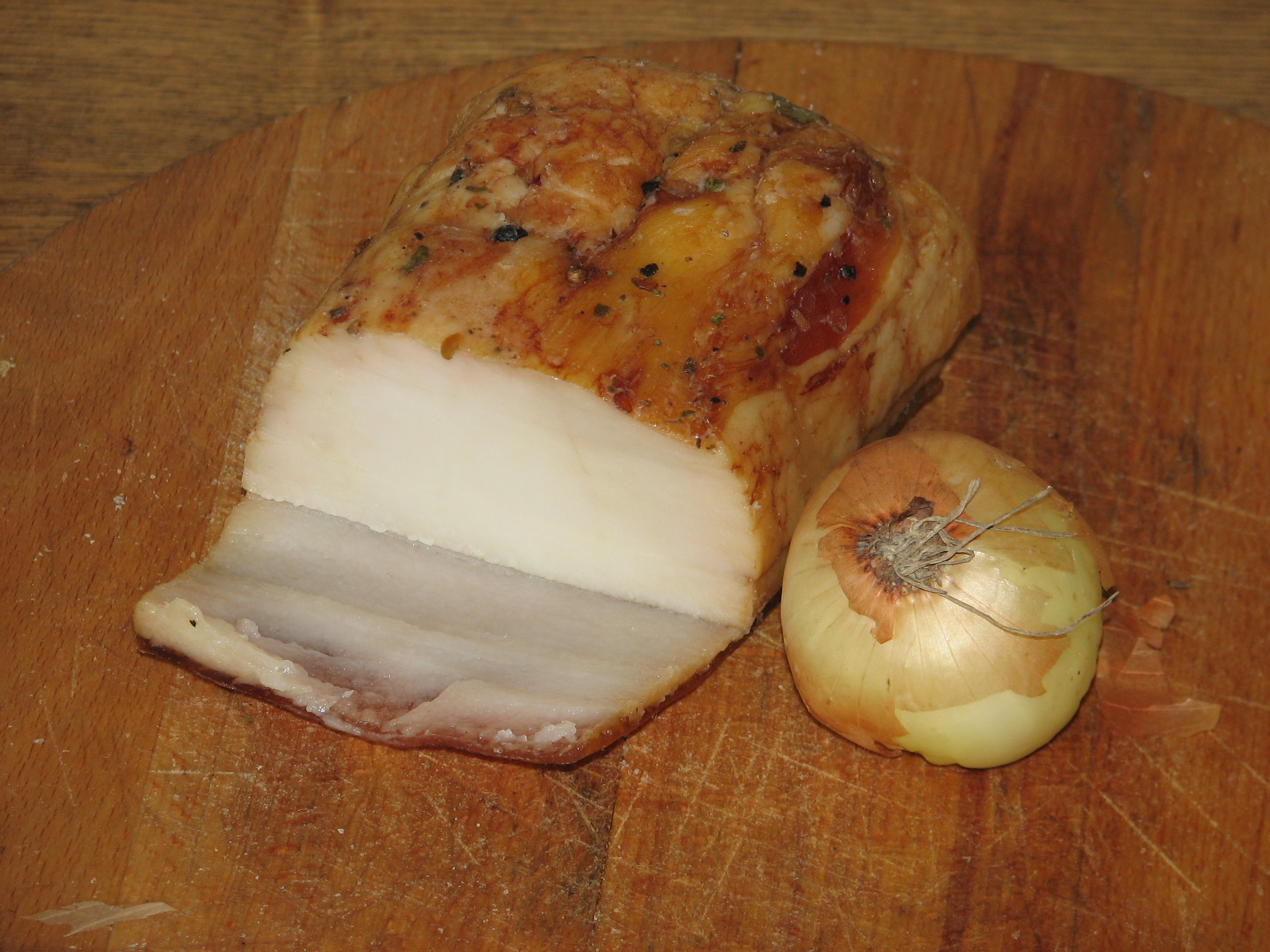 Author: Juozas Rimas 18:41, 22 October 2006 (UTC) Permission: released into free domain